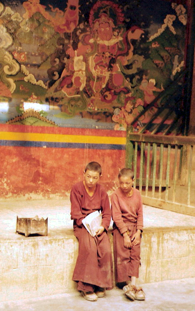 Child-monks in Lamayuru Monastery in Ladakh